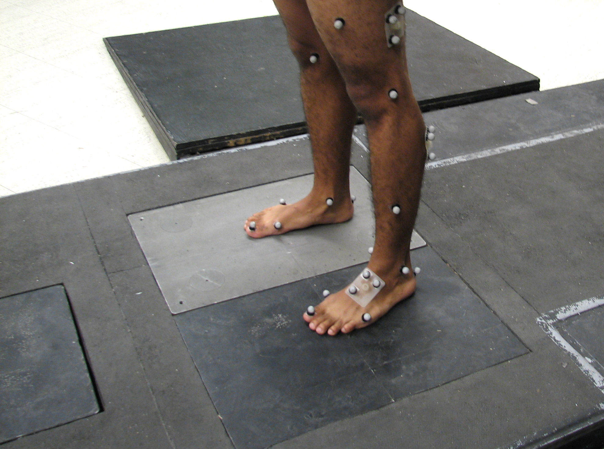 Three Kistler force platforms imbedded in a laboratory walkway